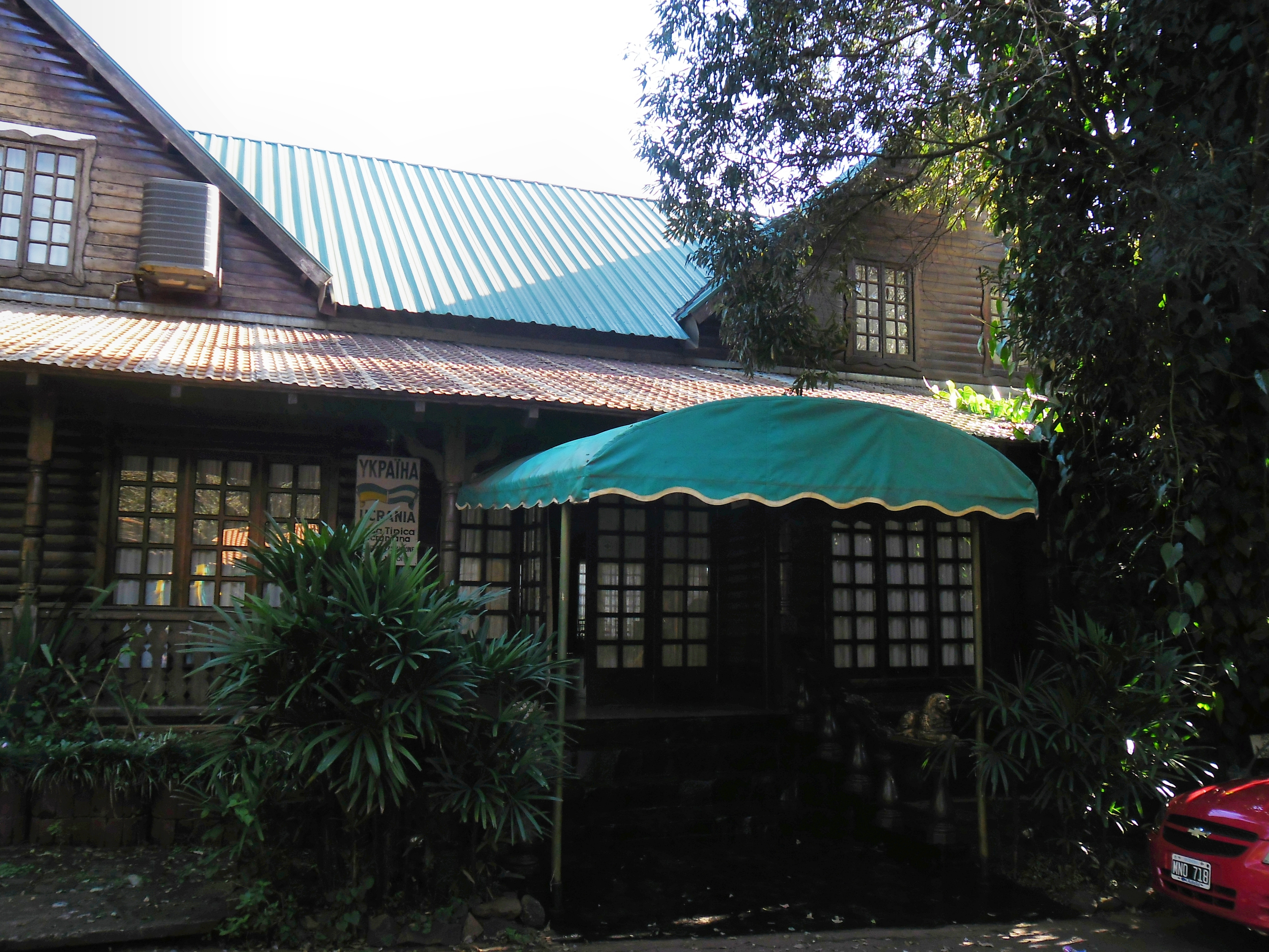 The «Ukrainian House» in the Park of Nations, Oberá.